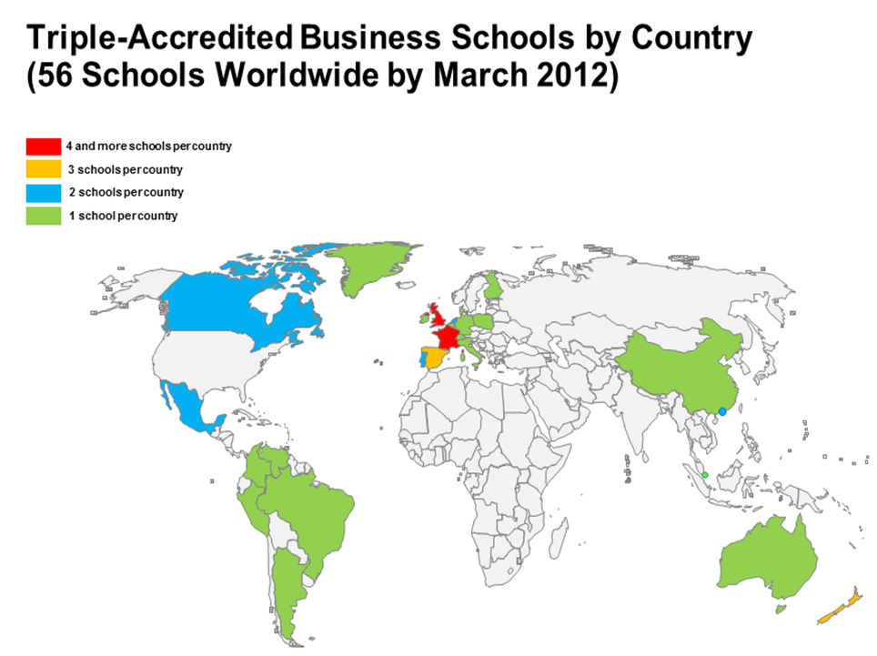 World Map of Triple-Accredited Business Schools